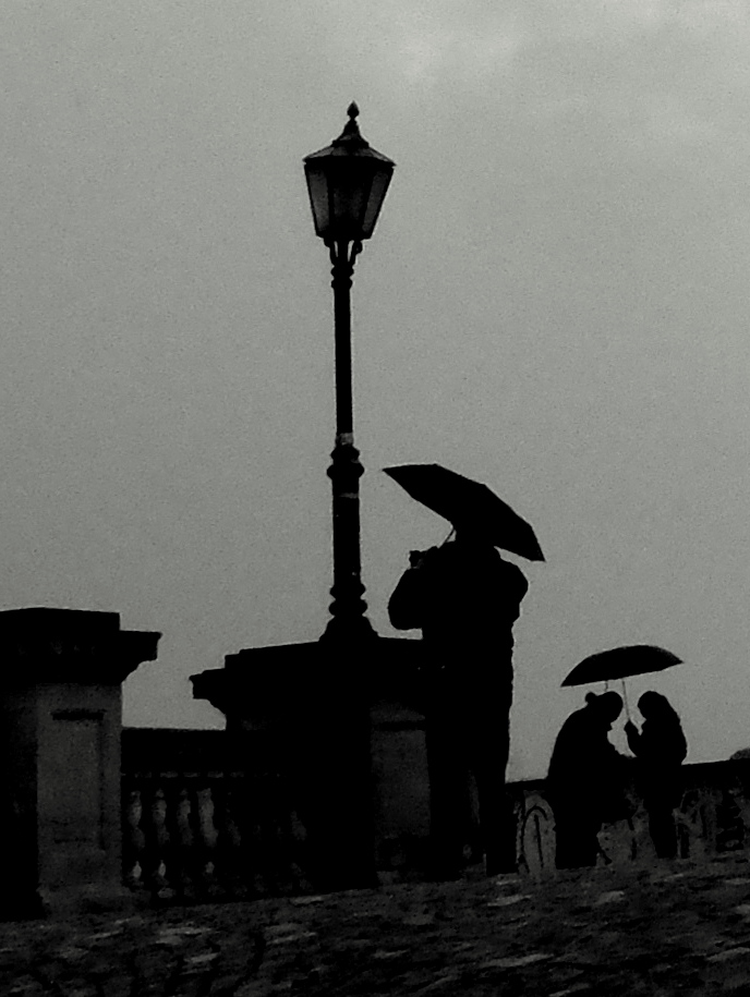 Silhouettes with umbrellas, photo by Jules Grandgagnage